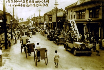 KANO Baseball Team Represented TAIWAN to Play at the Summer Kōshien (High School Tournament)